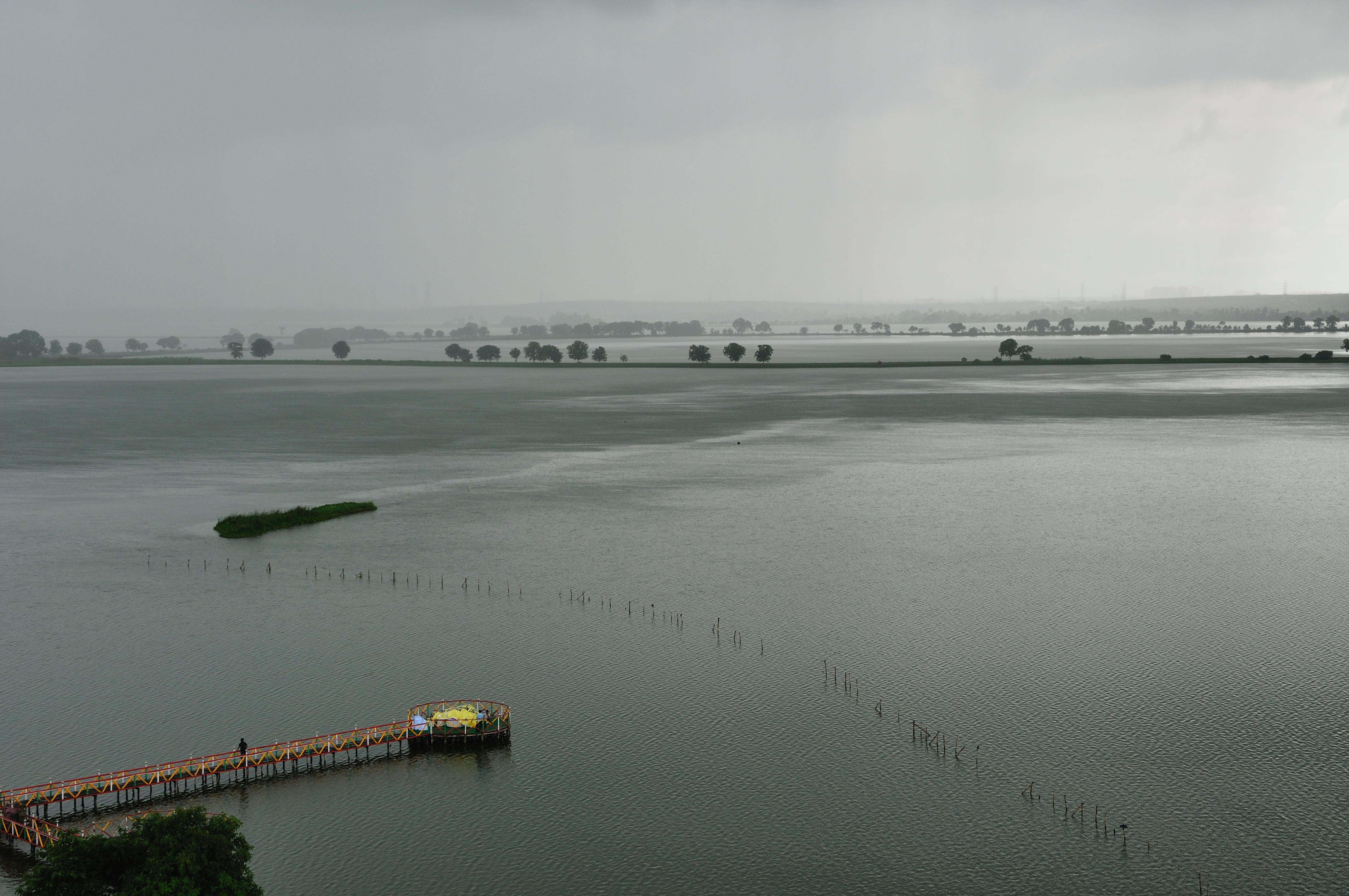 Monsoon clouds over the Nalban lake which lead heavy rain at Kolkata. This media file is uploaded with India loves Wikipedia event.